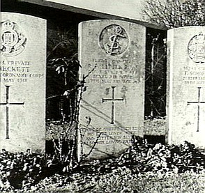 Commonwealth War Graves Commission headstone of Capt Robert Alexander Little, RNAS, in Wavens Cemetery, Pas-de-Calais, France